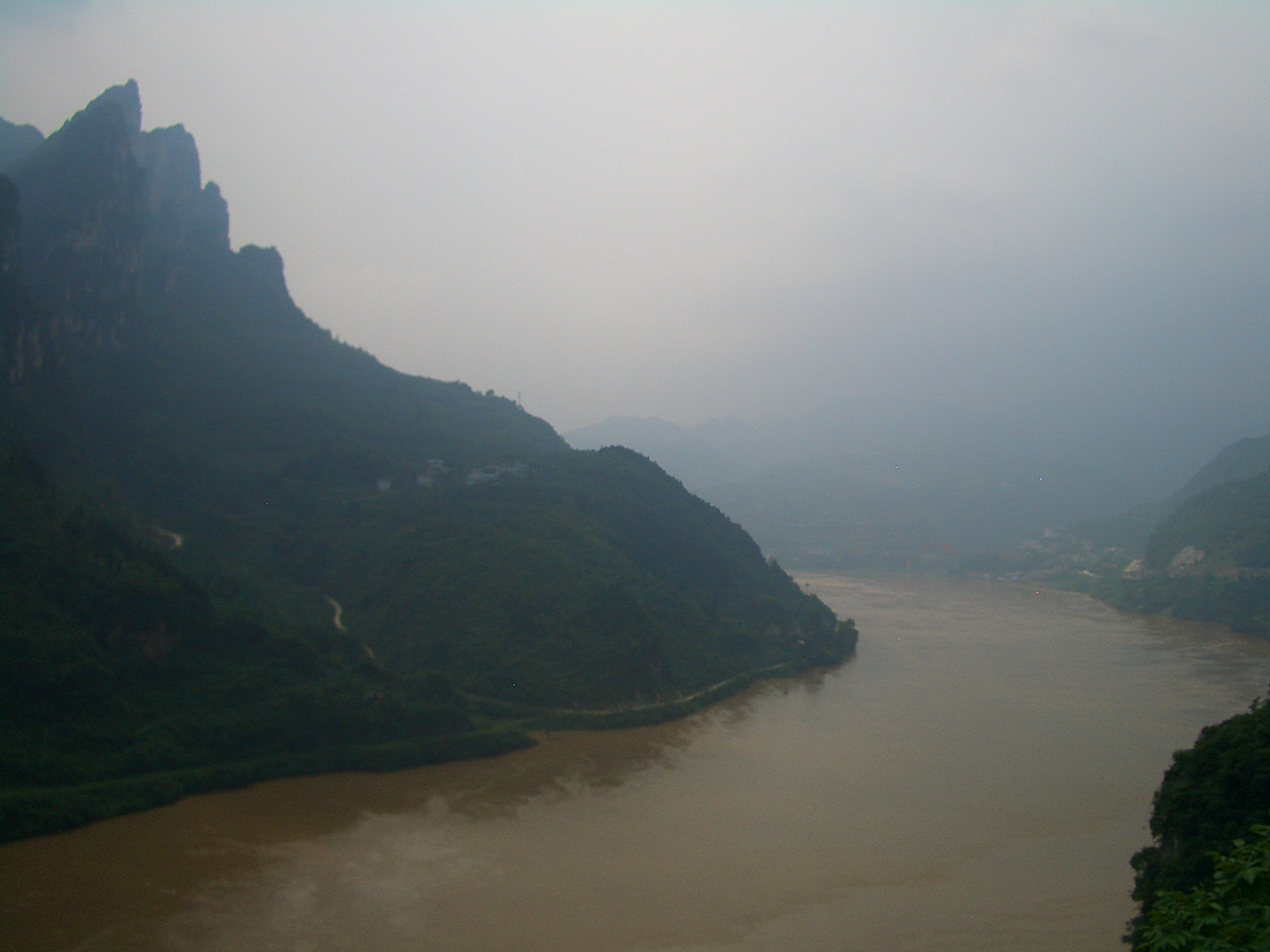 The high shores of the Changjiang seen from Hubei route S334 west of Liantuo village (Yiling District, between Yichang and Sandouping)